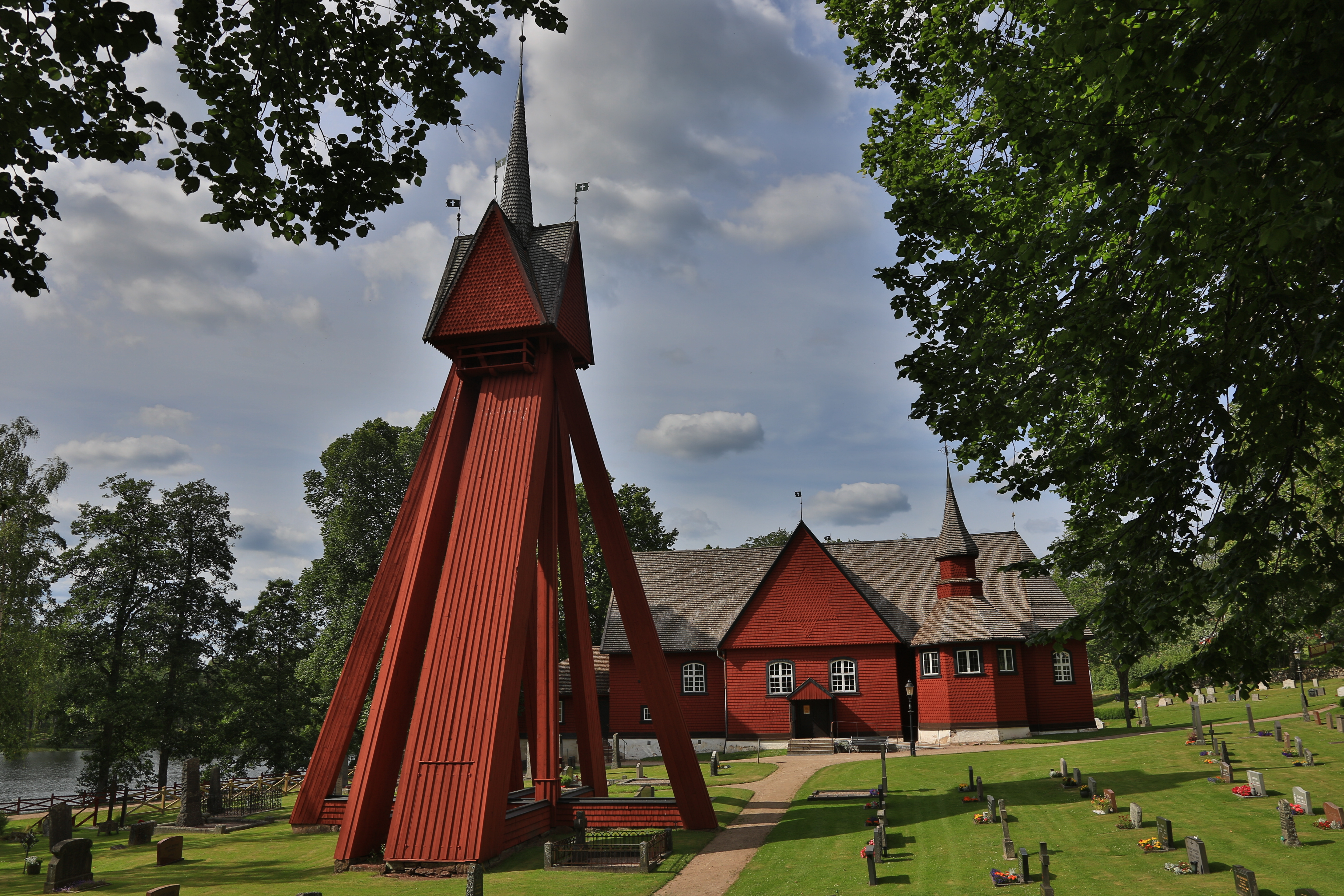 Bottnaryds church near Jönköping, Sweden